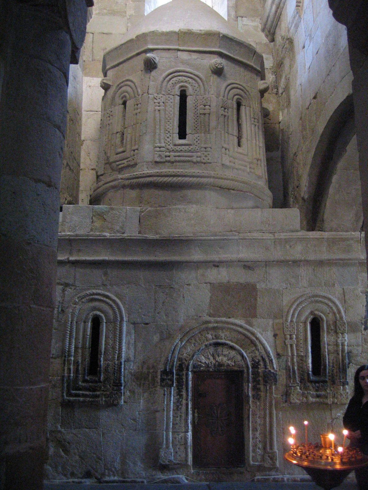 Crypt inside the church